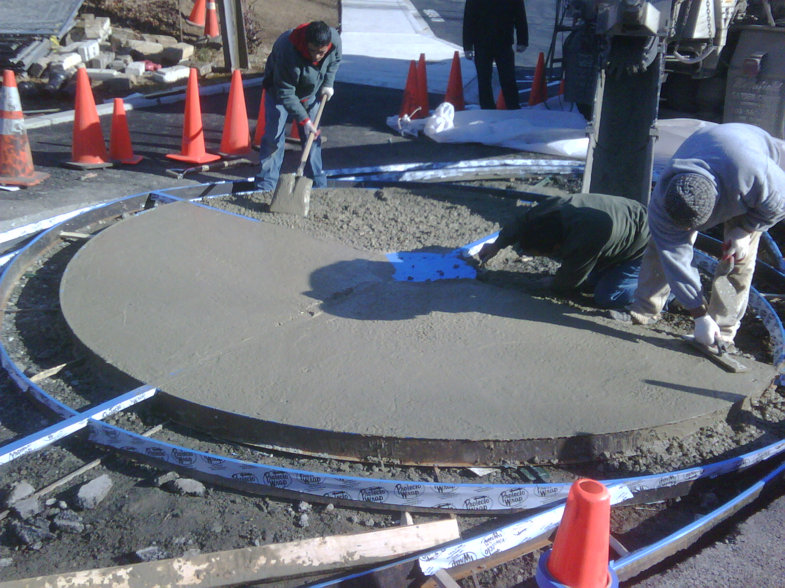 Maryland company "A Thru Z Striping" pouring and smoothing out concrete at Palisades Park in Washington DC.